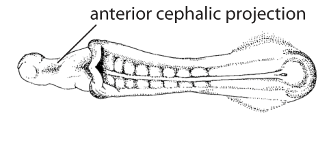 Standard Event System character depiction